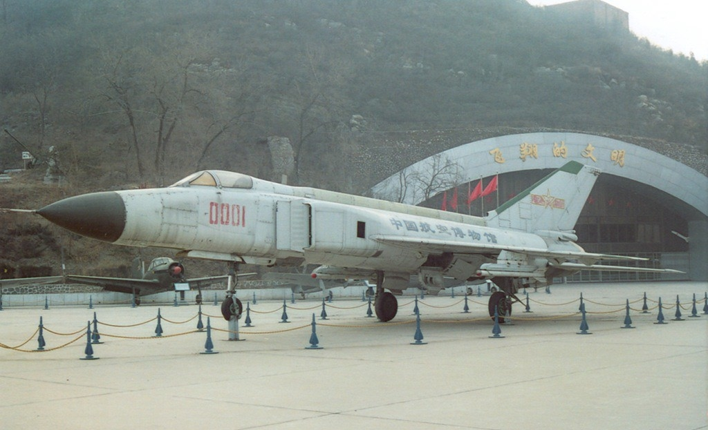 Shenyang J-8 (Finback-B)